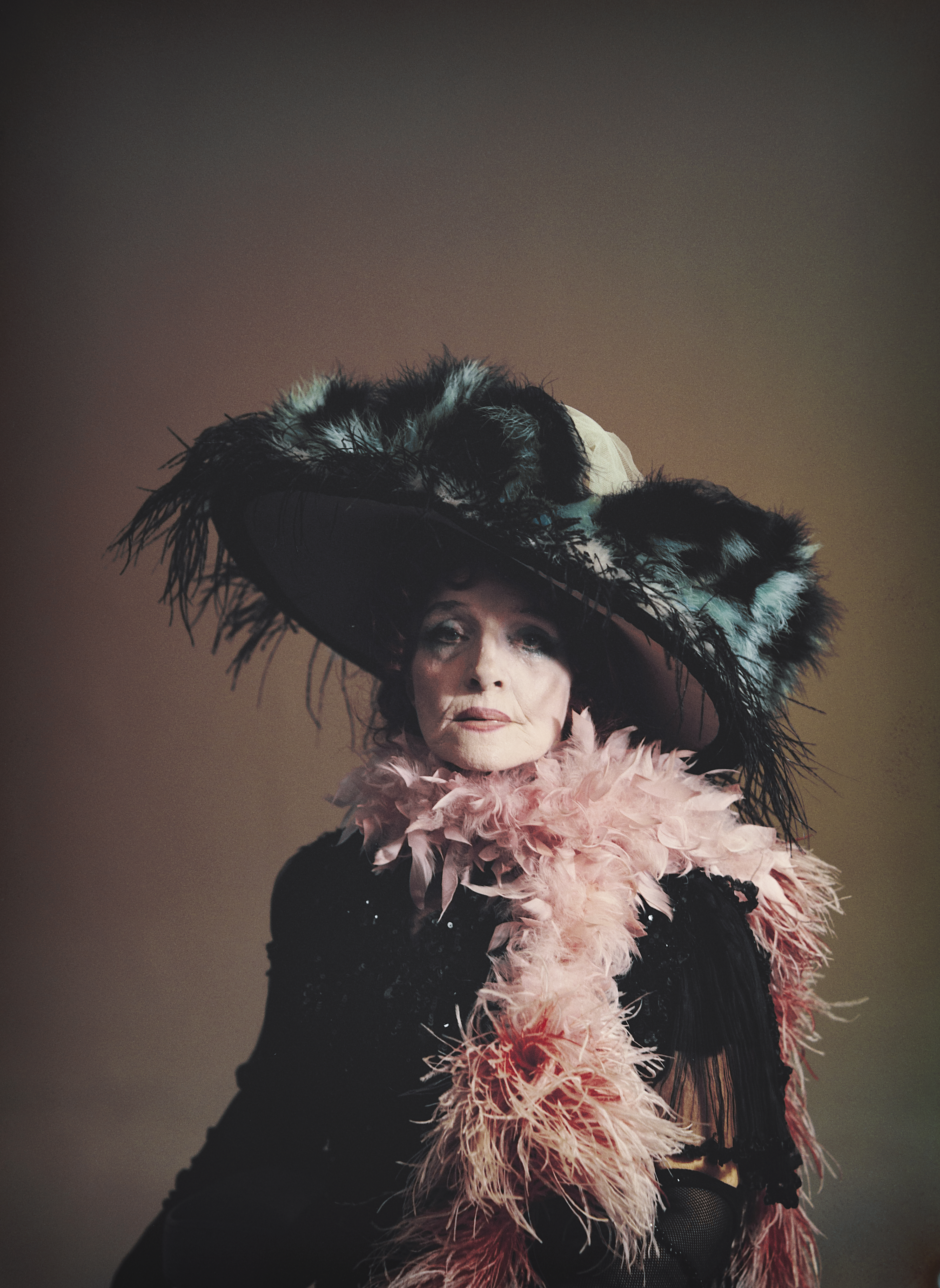 Photograph of the Finnish actress Ella Eronen (1900–1987).